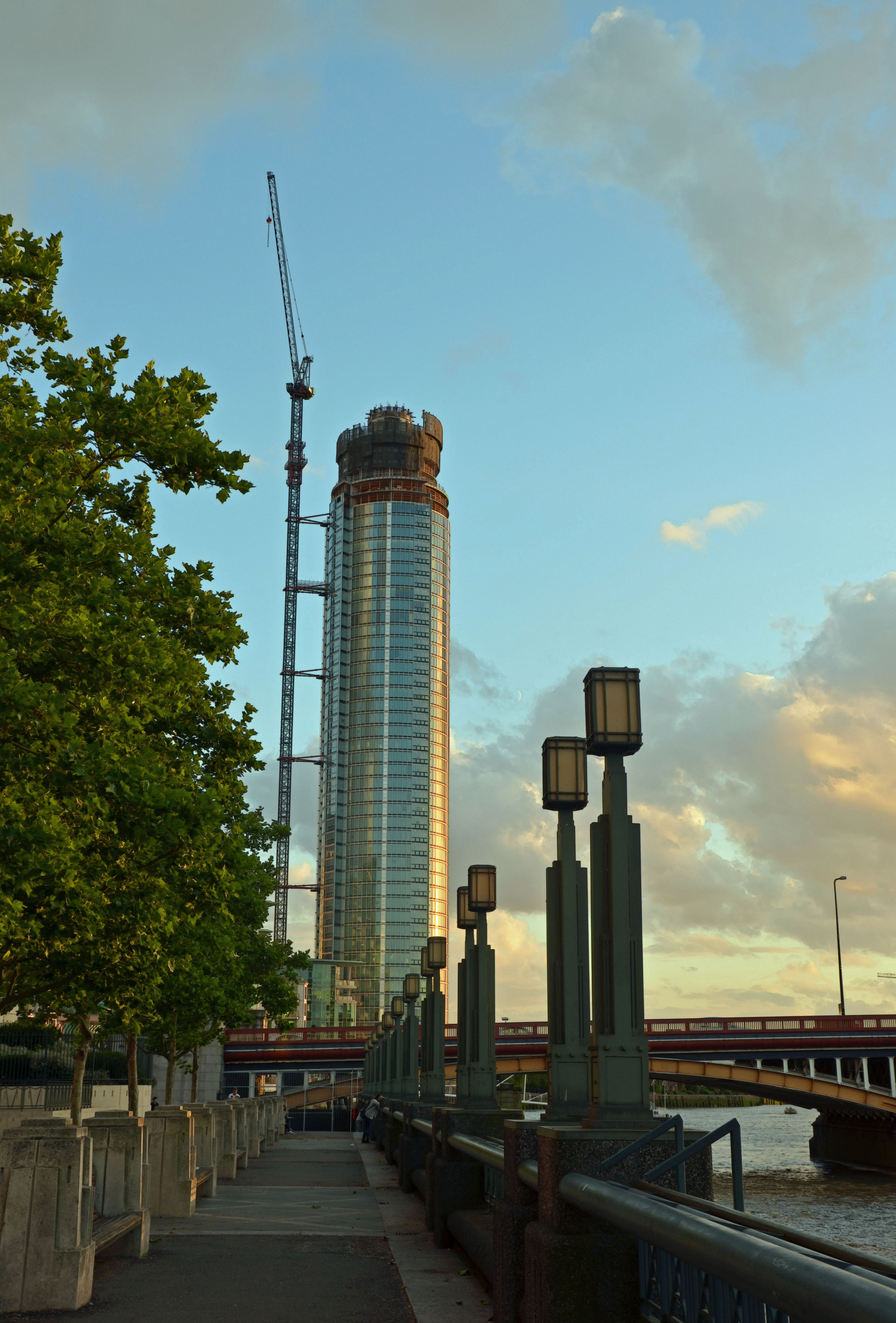 Seen from the Thames Path outside the Secret Service building.